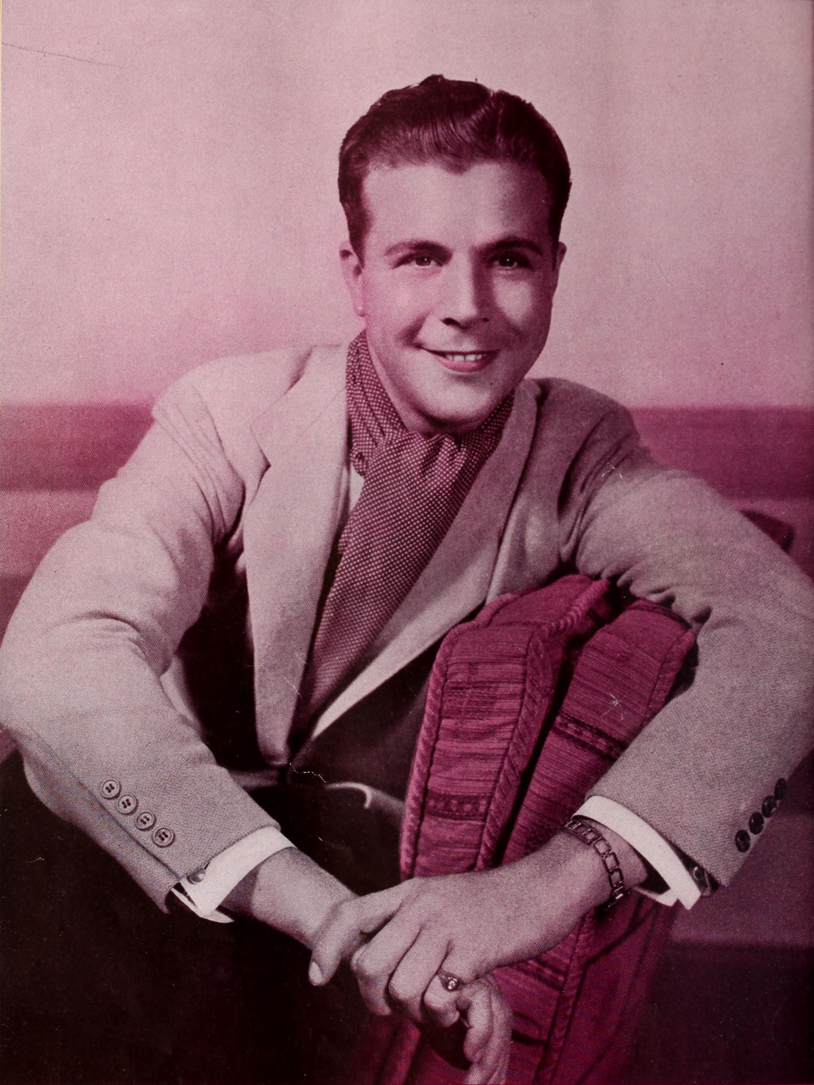 Radio Stars, Dec. 1934